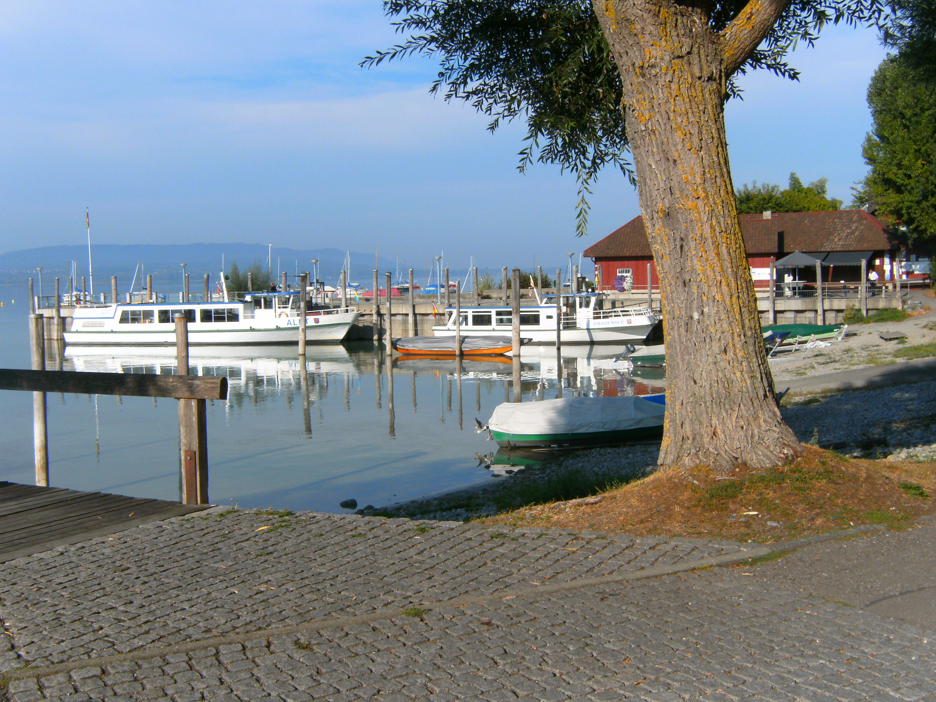 Allensbach, Germany, Schiffslände: landing stage for the boat Allensbach - Reichenau.